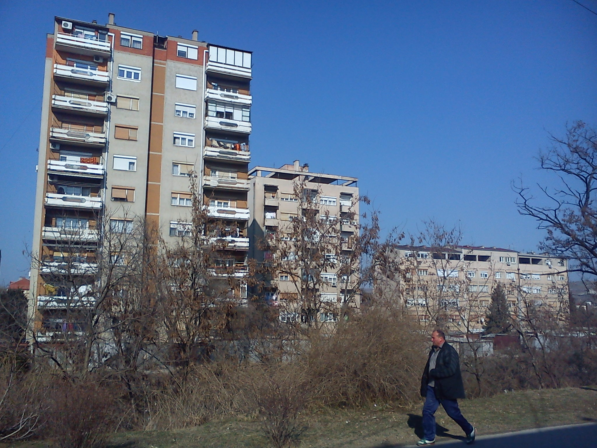 Veles, Macedonia